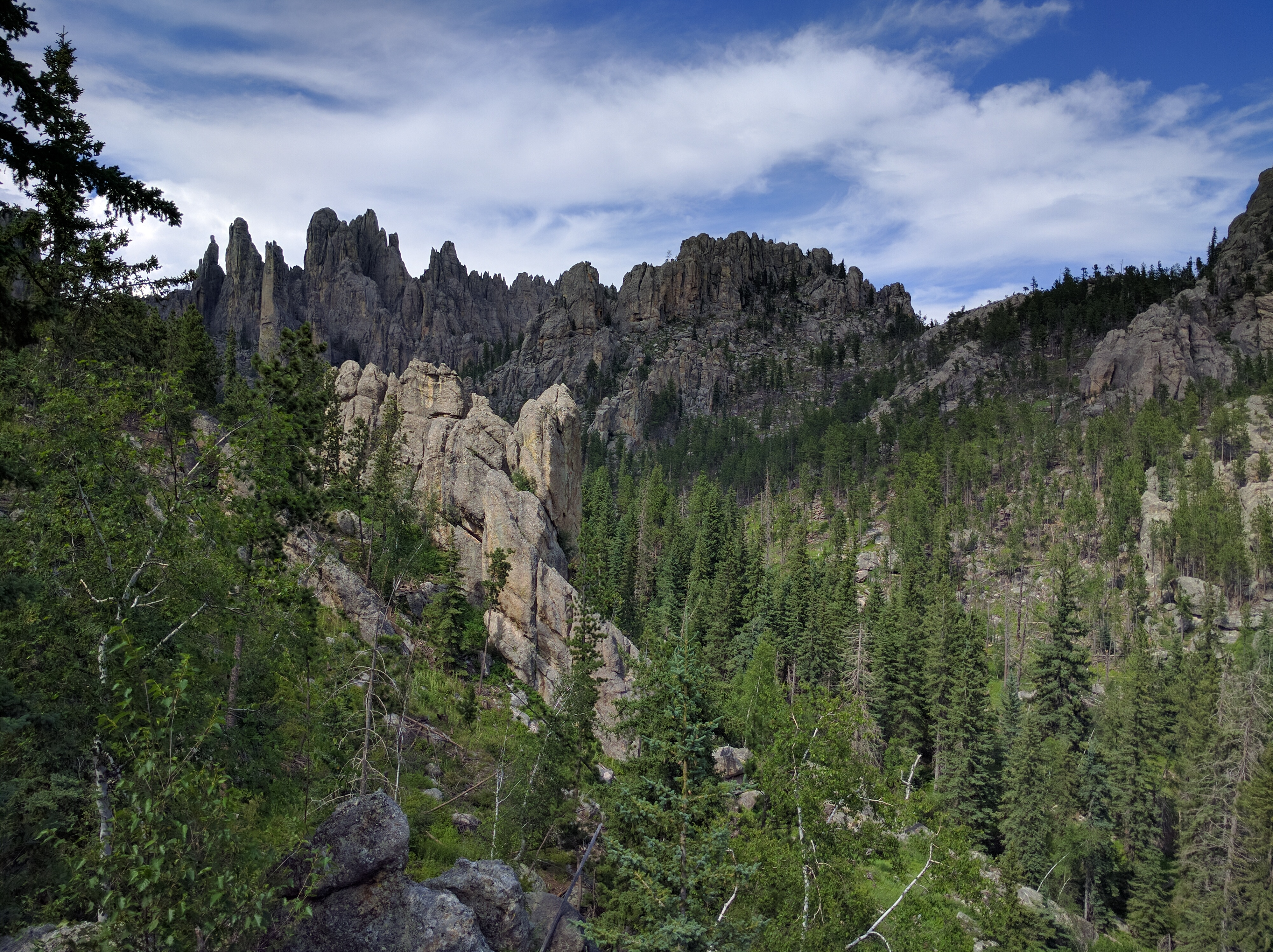 driving along the Needles Highway in the Black Hills of South Dakota